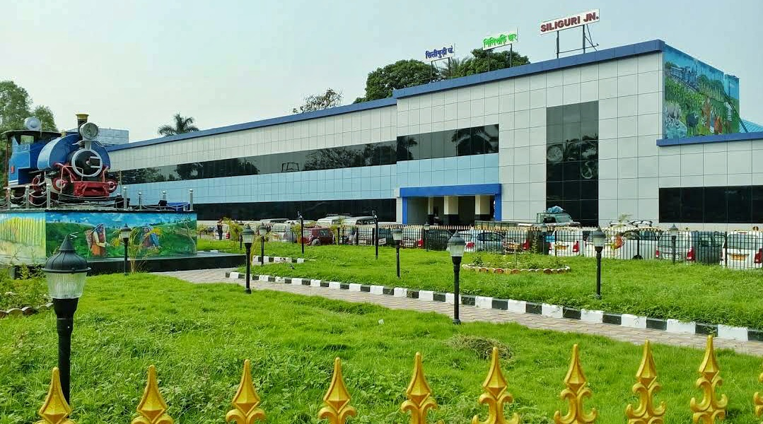 Siliguri junction new view